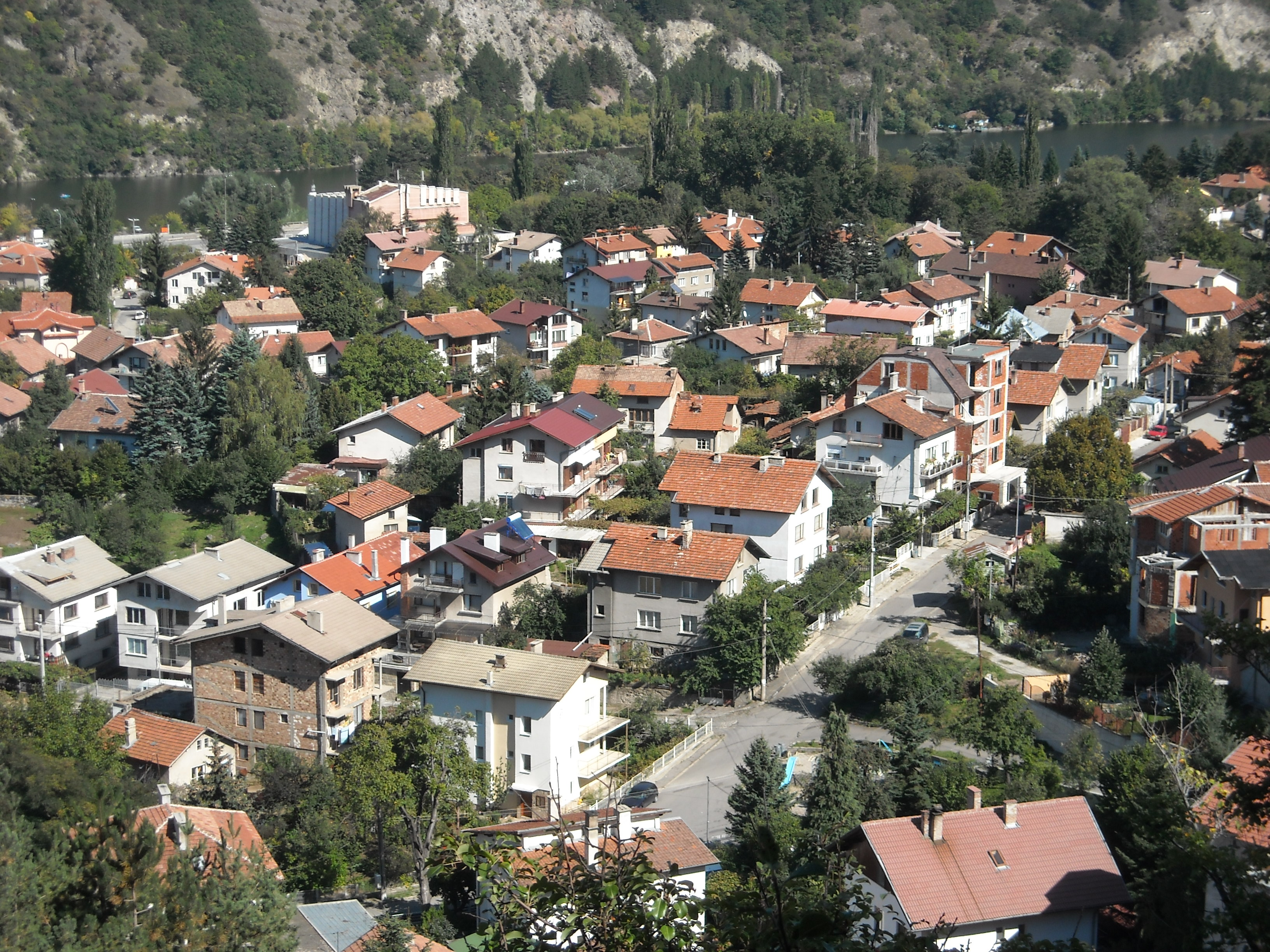 Village of Panchervo and the Lake Pancharevo